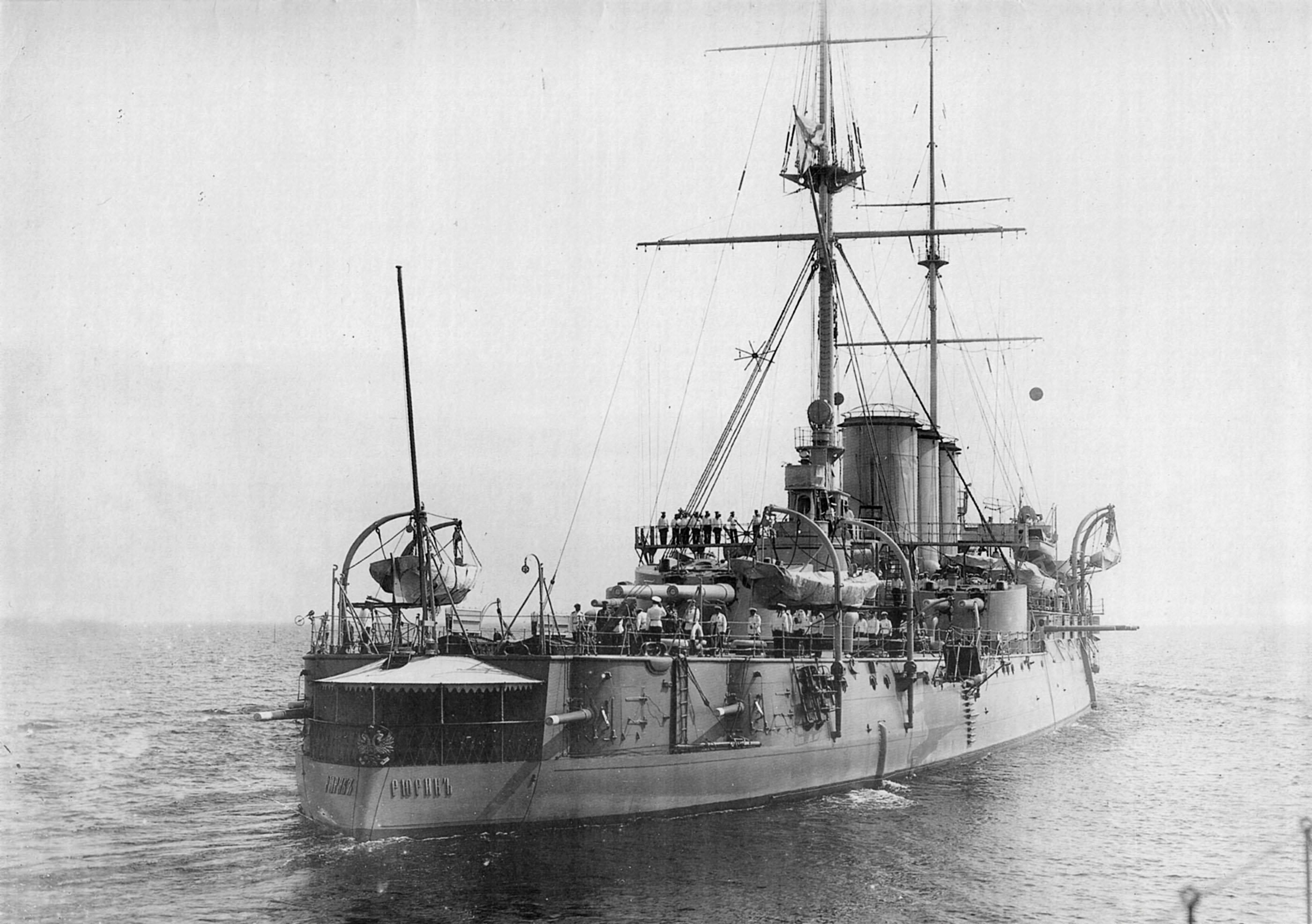 Arimoured cruiser Ryurik.